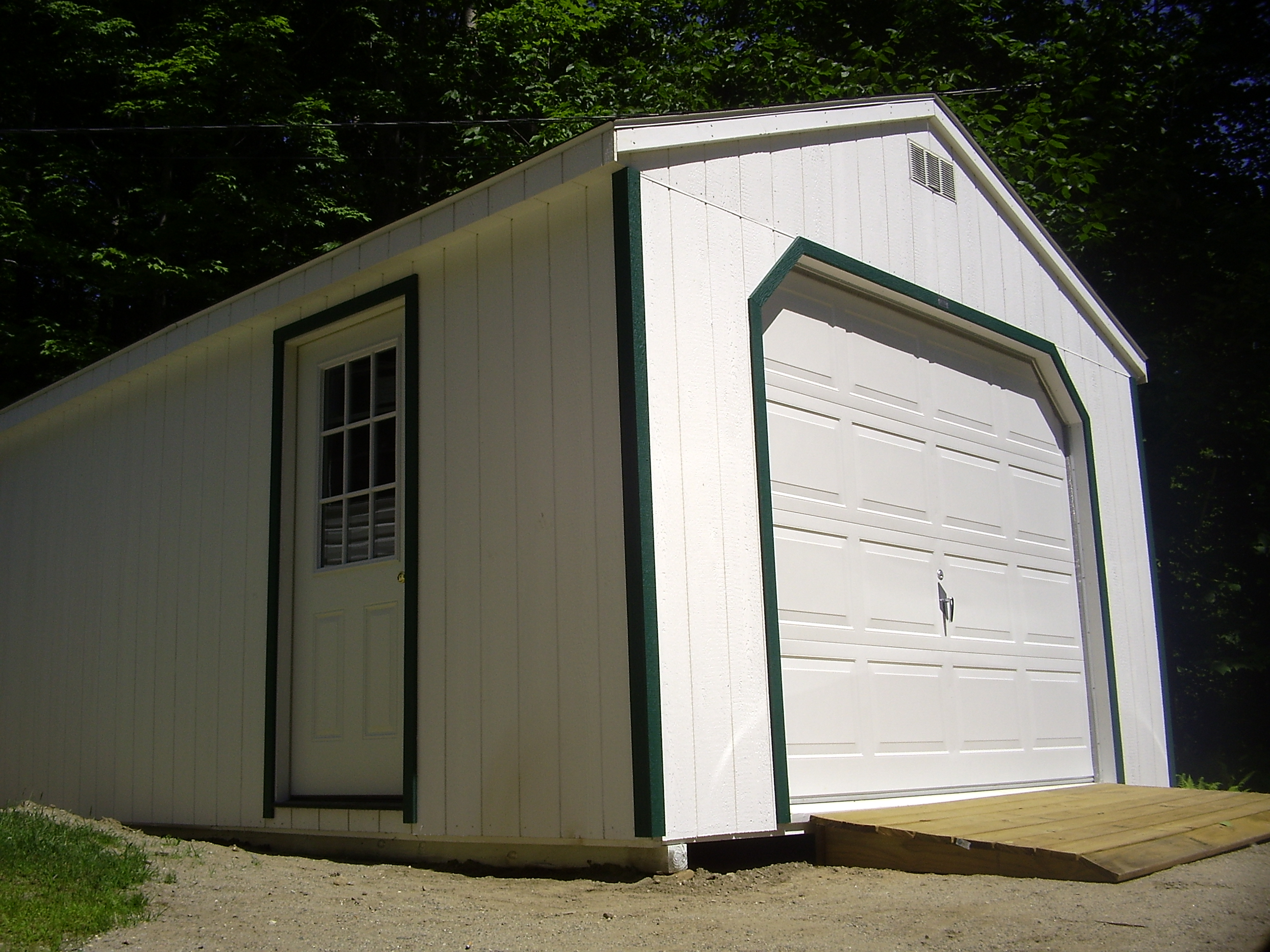 Car garage [House Detached] July 4th 2008.JPG